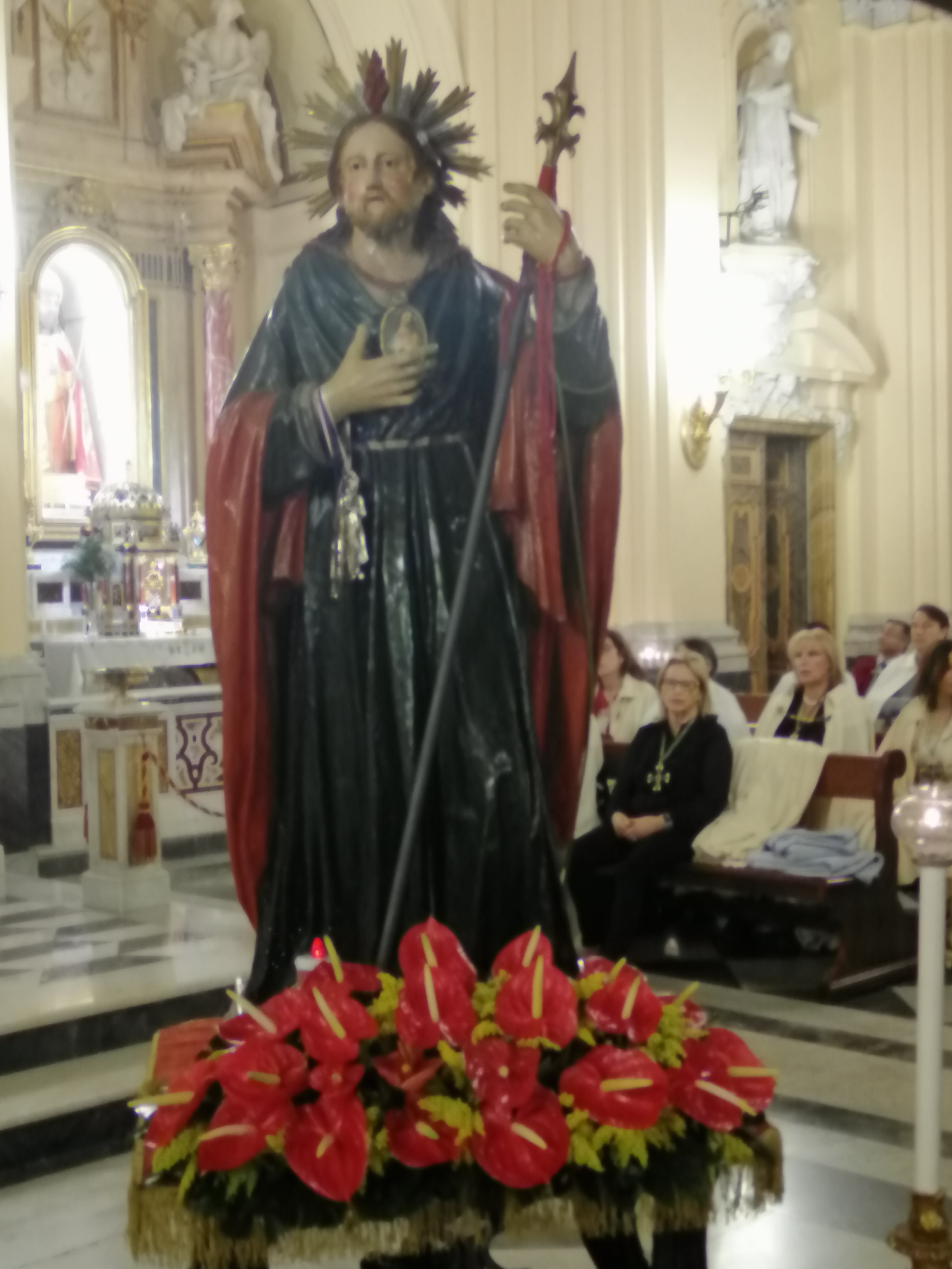 Wooden statue of St. Jude Thaddeus apostle displayed at the high altar of the collegiate church of San Giovanni Battista di Angri, during the ceremony for the anniversary of the feast of the saint-Angri (Sa).